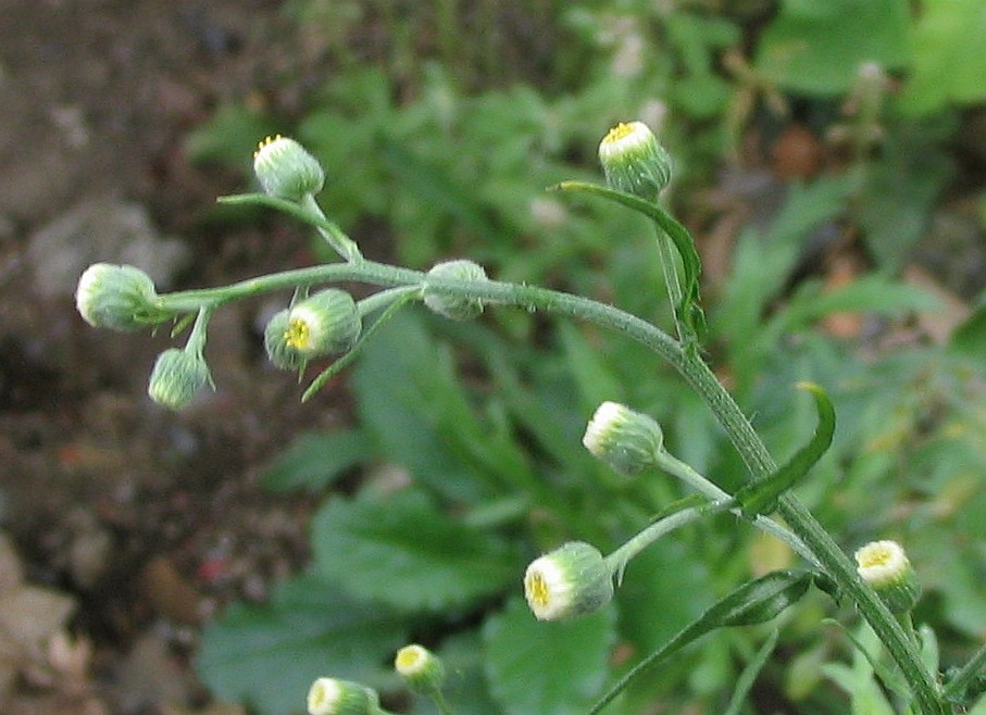 Flowers of Conyza bonariensis / Hairly fleabane